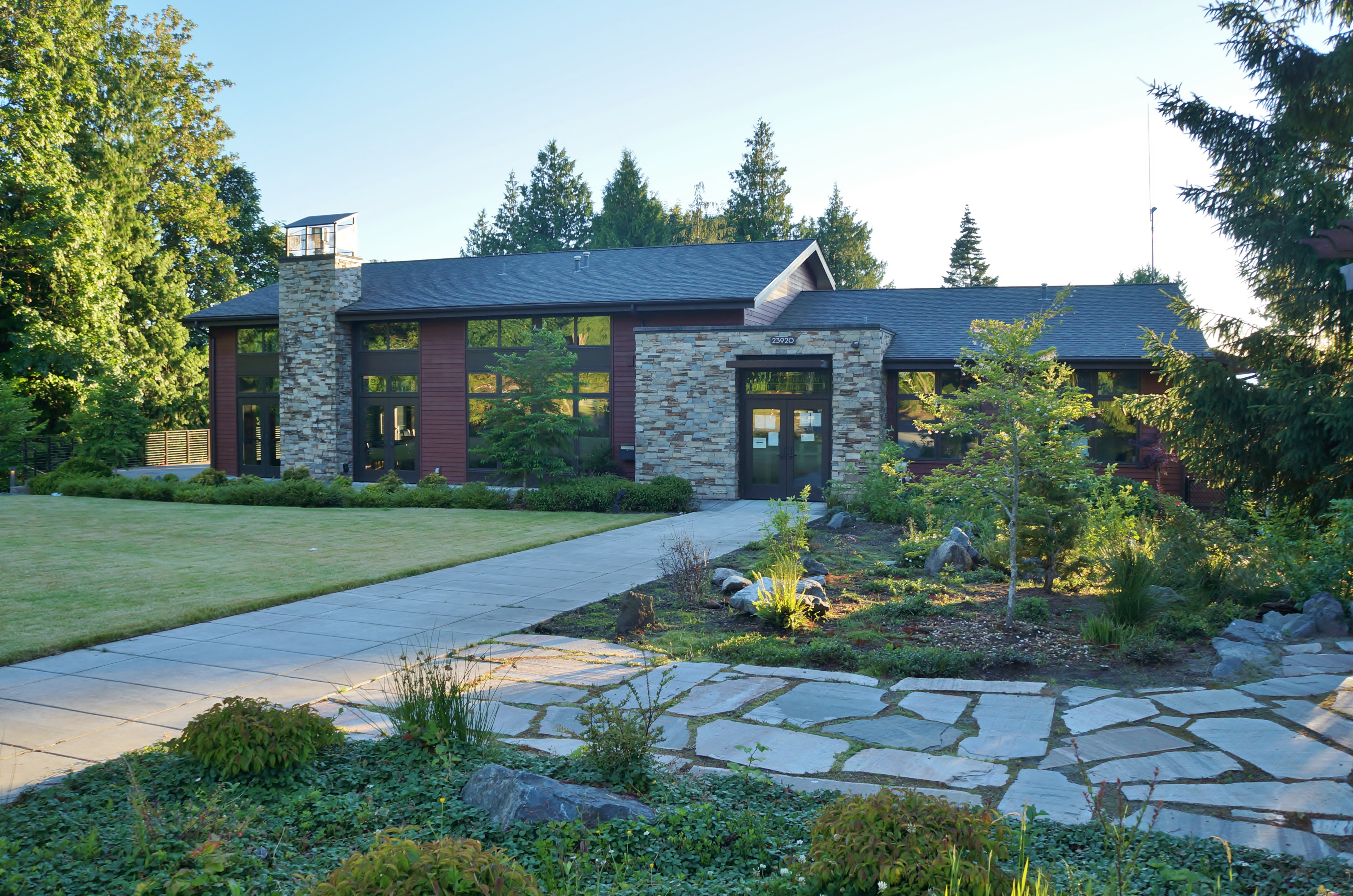 The town hall of Woodway, a suburb of Seattle in Snohomish County, Washington.